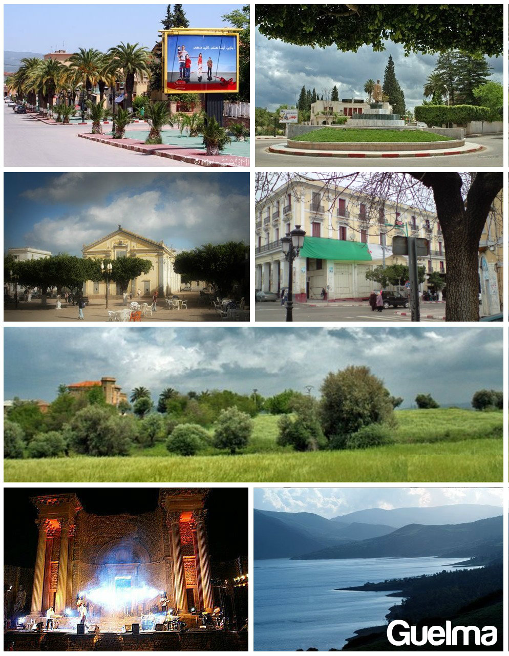 Photographer: GASMI.M. "Source: Own photograph by uploader" Guelma est une belle ville